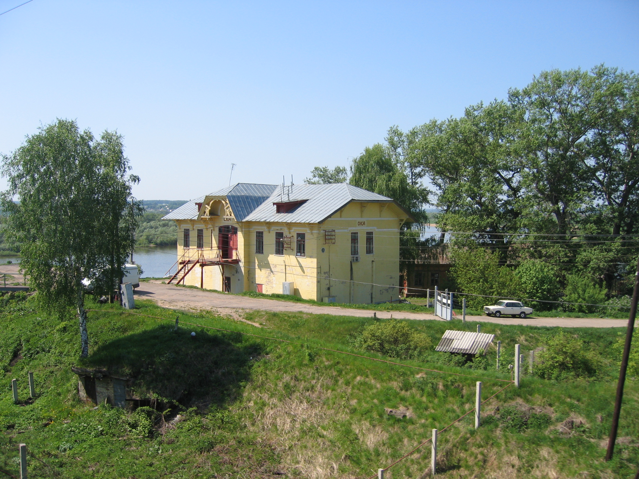 Oka train stop near Serpukhov, Moscow Oblast